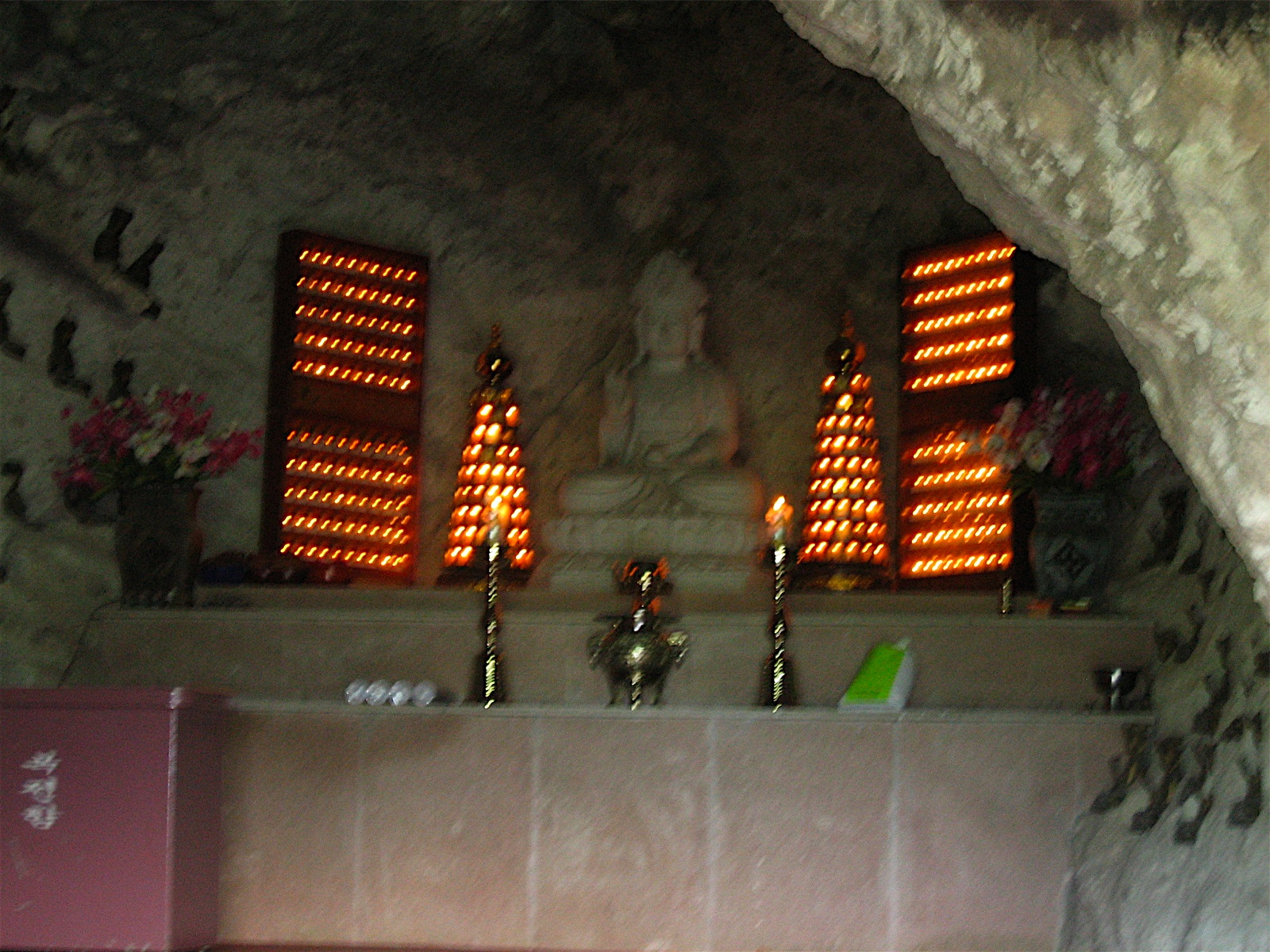 Golgulsa in Mount Hamwol Gyeongju, Gyeongsangbuk-do, South Korea.